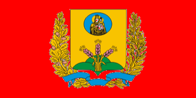 Flag of Mahilyow Voblast, Belarus